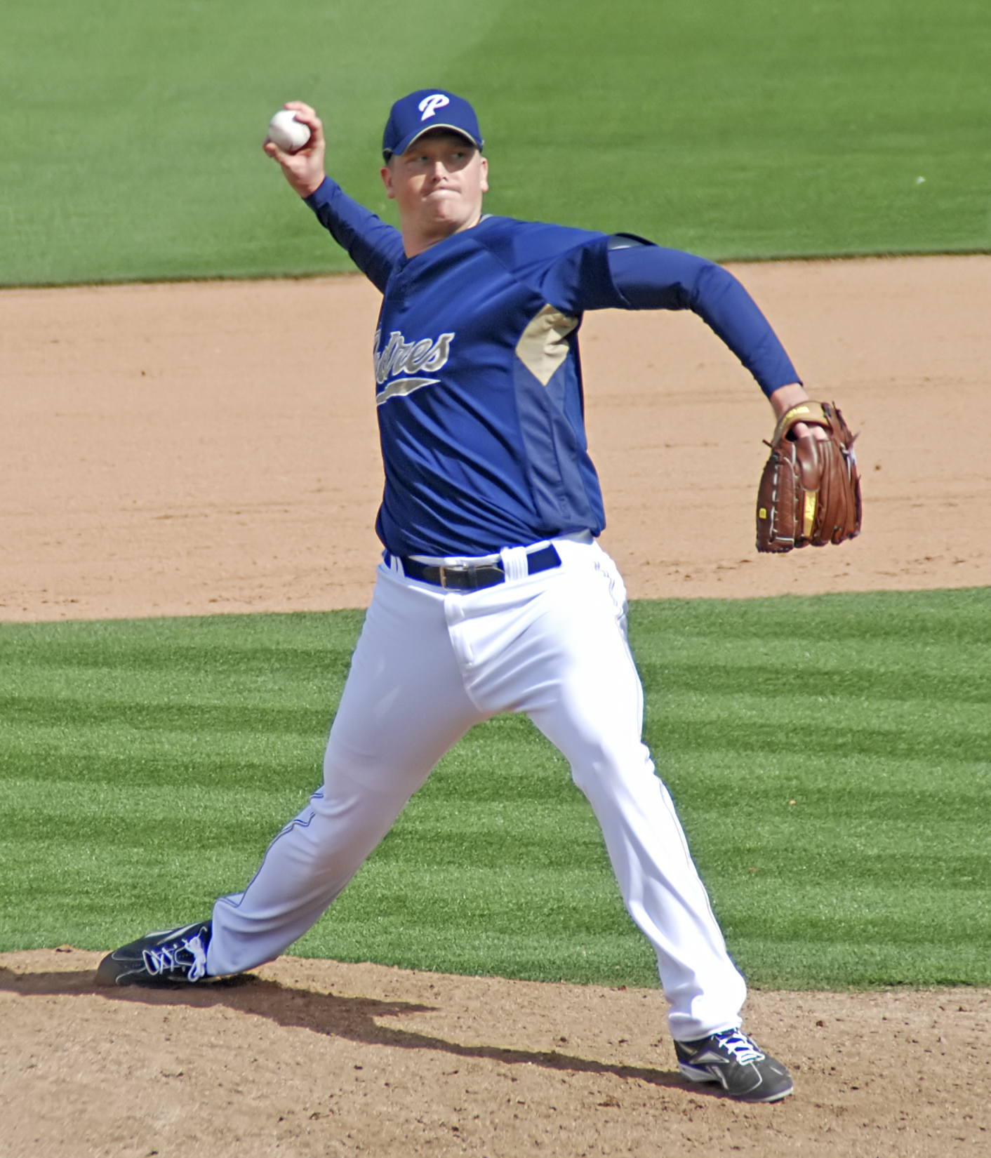 Chad Reineke pitcher for the San Diego Padres spring training 2009